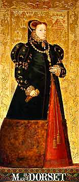 Copy after a wrongly identified portrait of Lady Dacre (1524-1576).